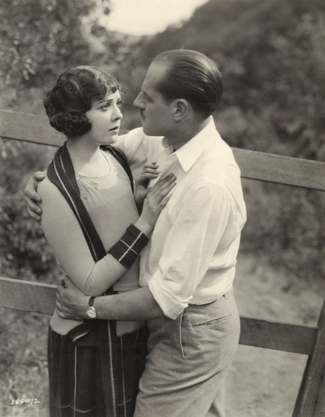 The young chorus girl Eileen (played by Lila Lee) is in the embrace of the millionaire Larry Taylor (Jack Holt) in an outdoor publicity still for William de Mille's silent drama film After the Show (1921).